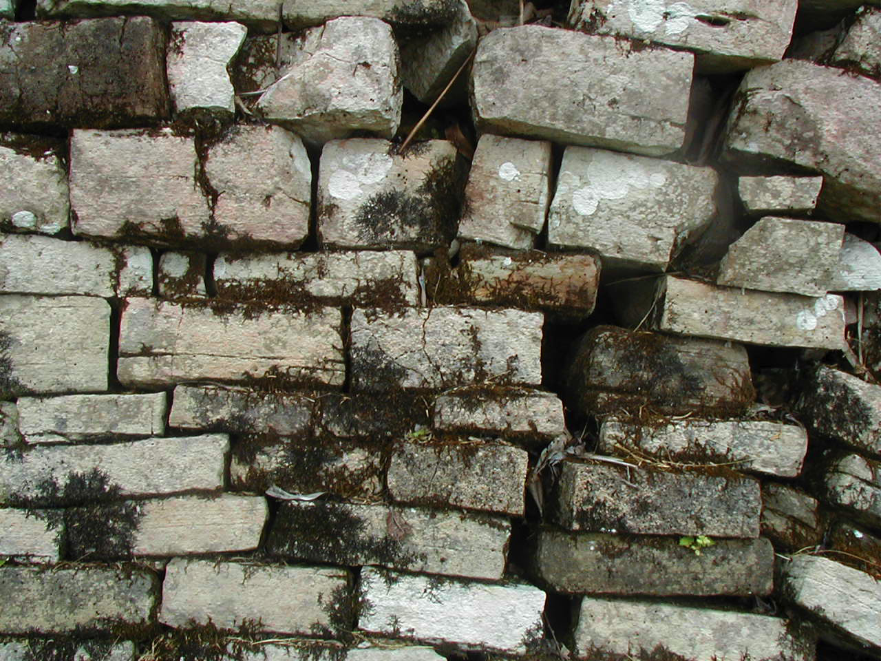 Detail of a Mayan structure at Lubaantun, Belize, using limestone blocks and mortarless construction. Photo by Gerry Manacsa, February 2002.